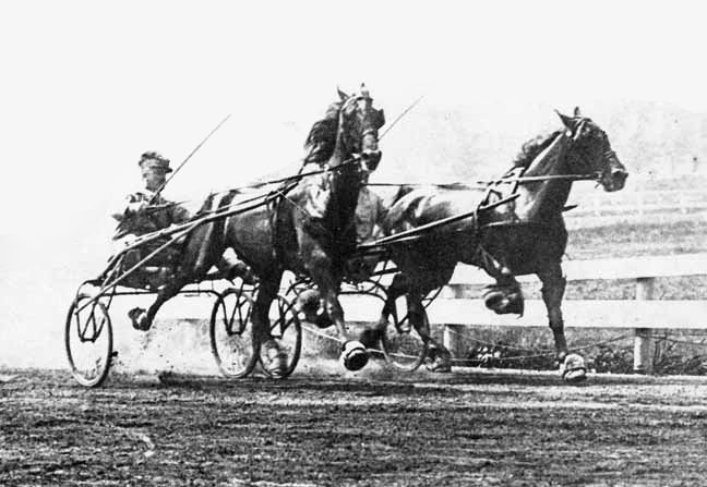 A man by the name of H.B. Ralston driving a horse at the Charles River Speedway.